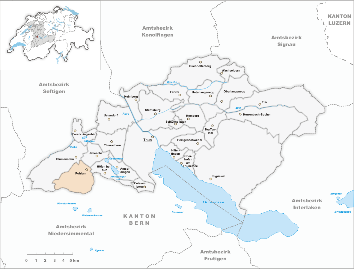 Municipality Pohlern